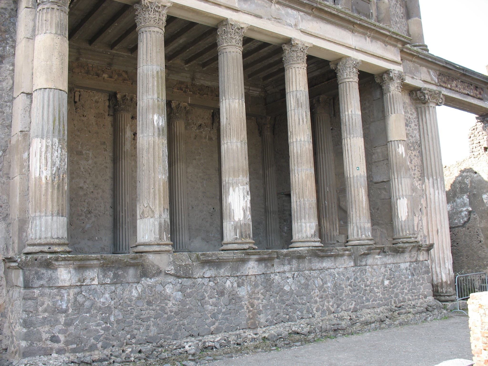 A photograph of the court within the basilica at Pompeii, taken by myself on January 16, 2006.